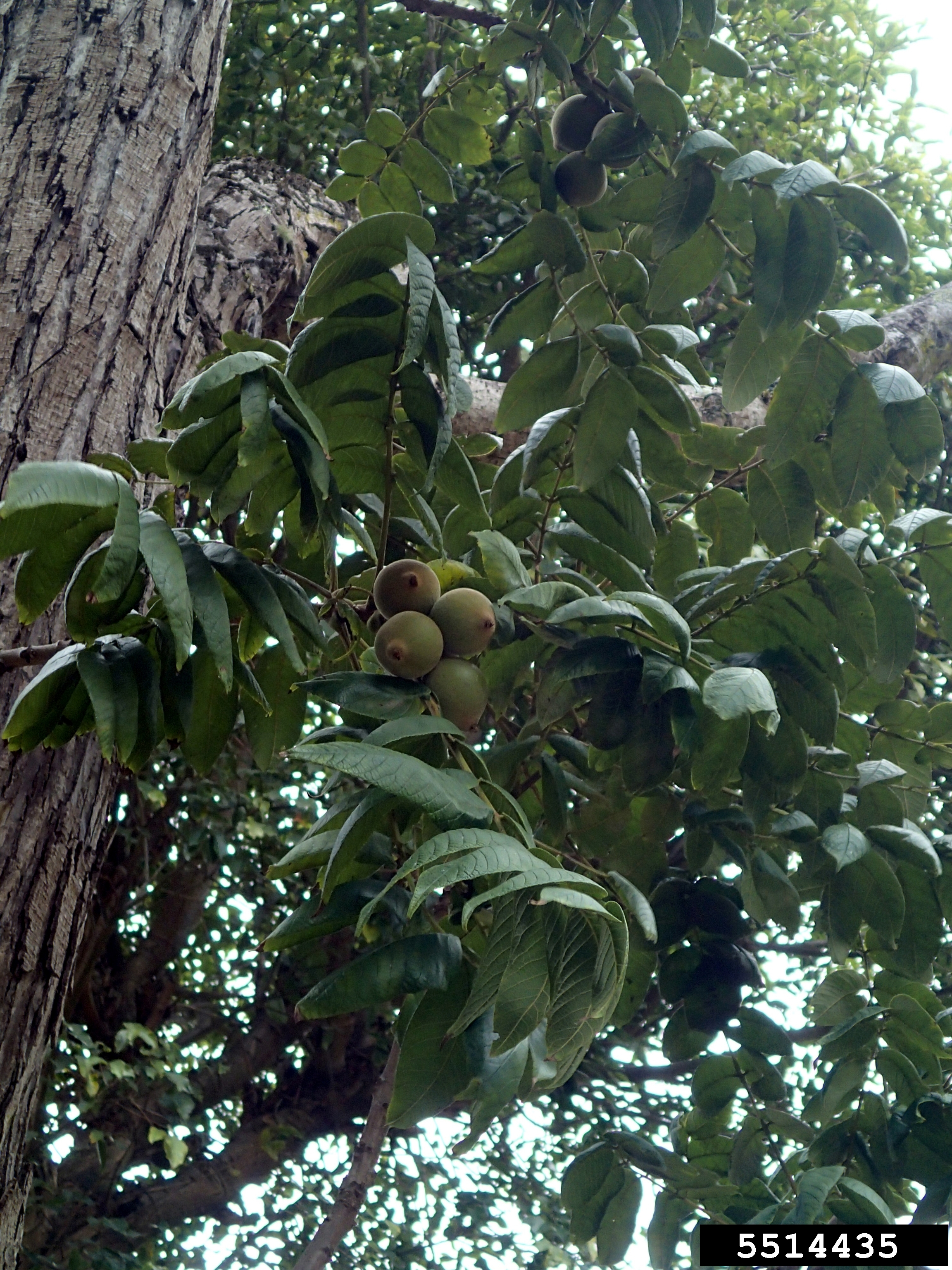 Juglans neotropica leaves and fruit